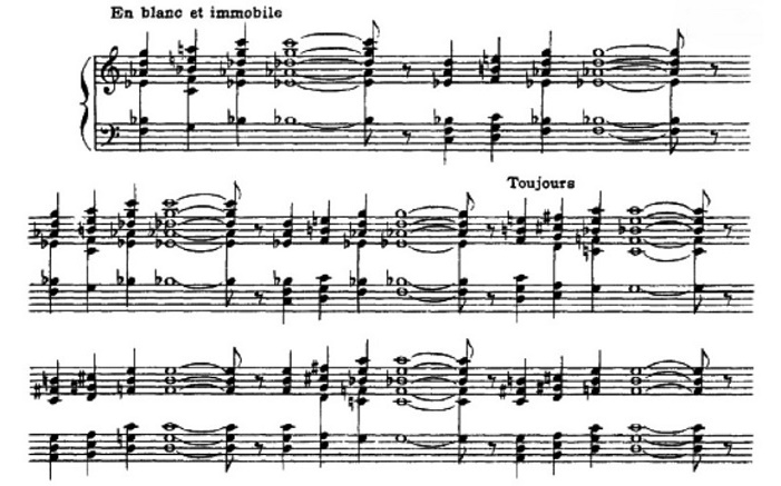 Excerpt from score for illustrative purposes